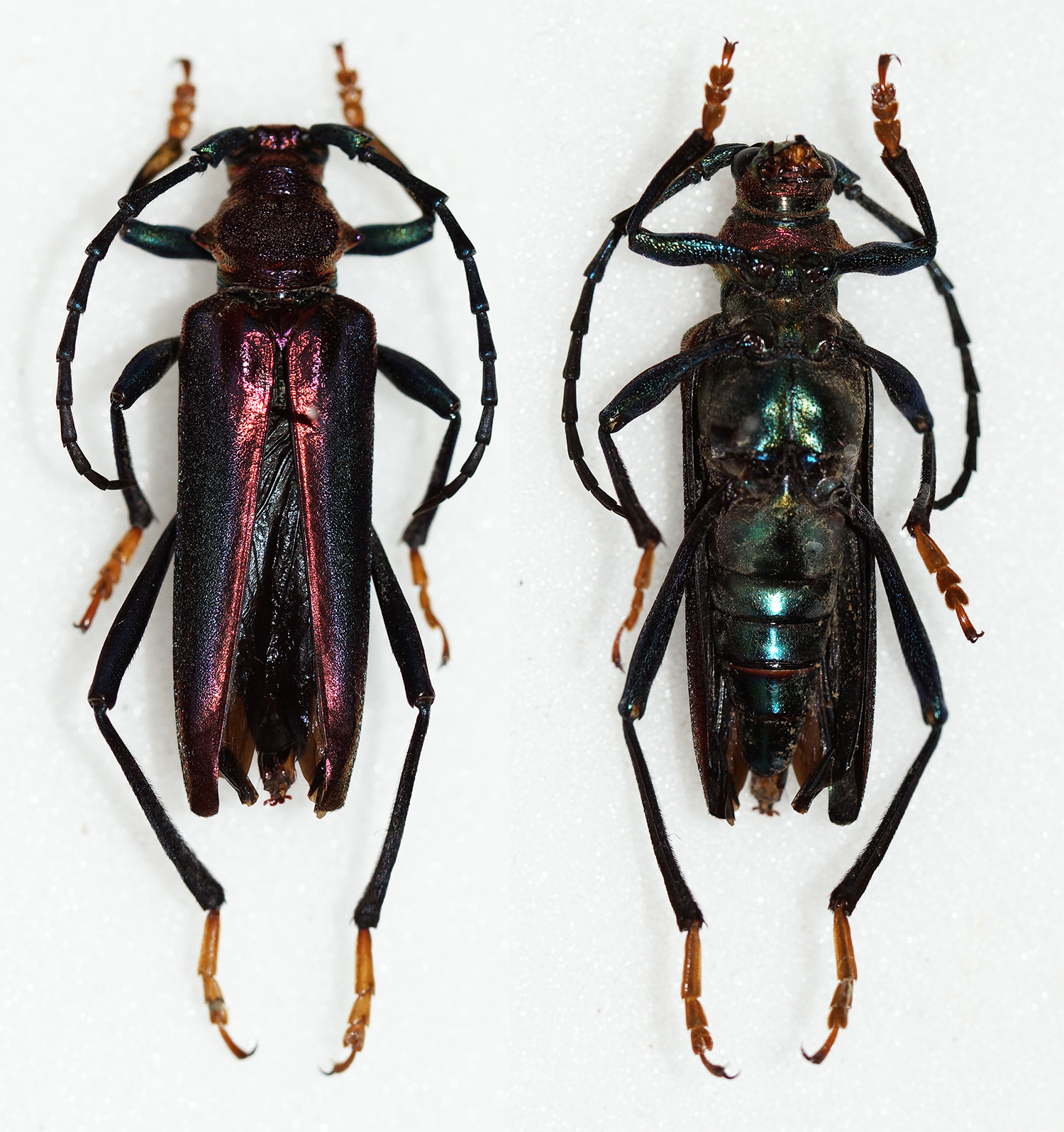 Chevrolat,1841 Sex: Female Data: 04-2012 - Sierra Madre - Aurora - Eastern Luzon - Philippines Size: ?